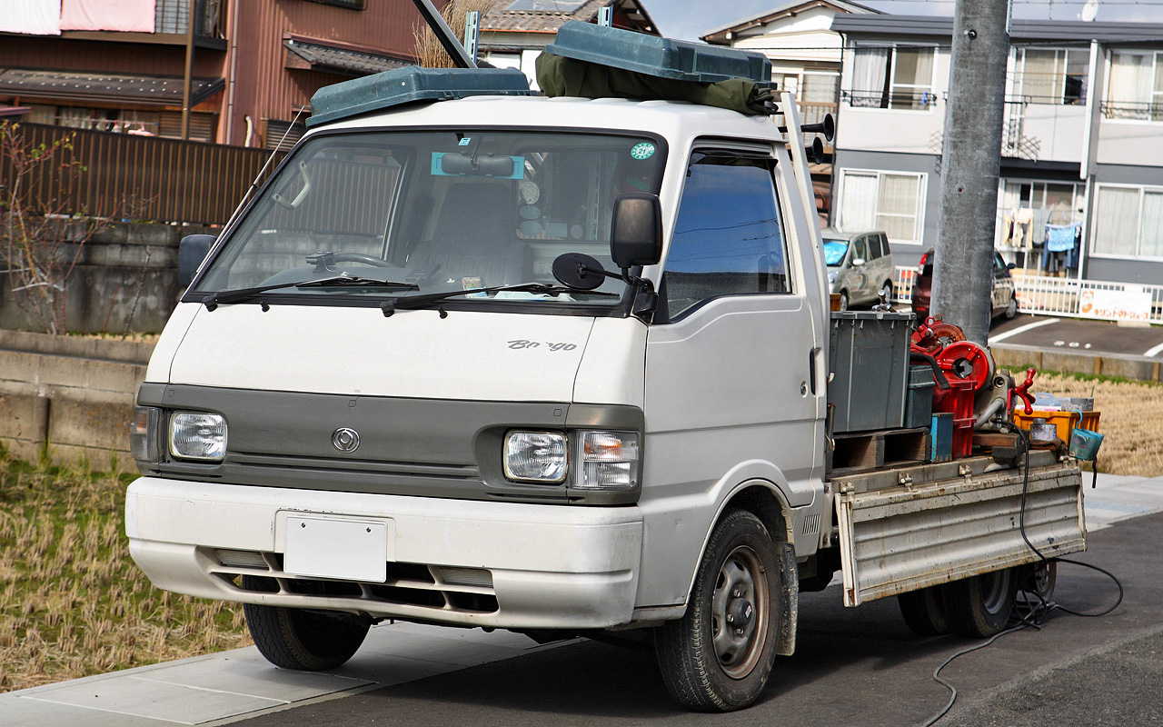 Third generation Mazda Bongo Truck ( Type SE )